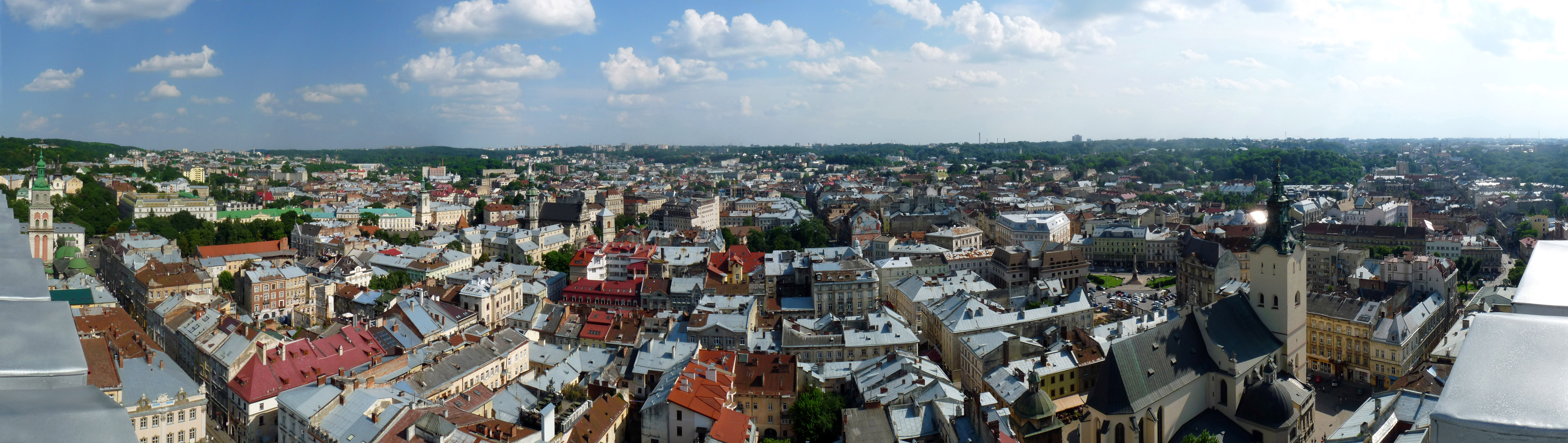 The view from the Lviv Town Hall towards the south